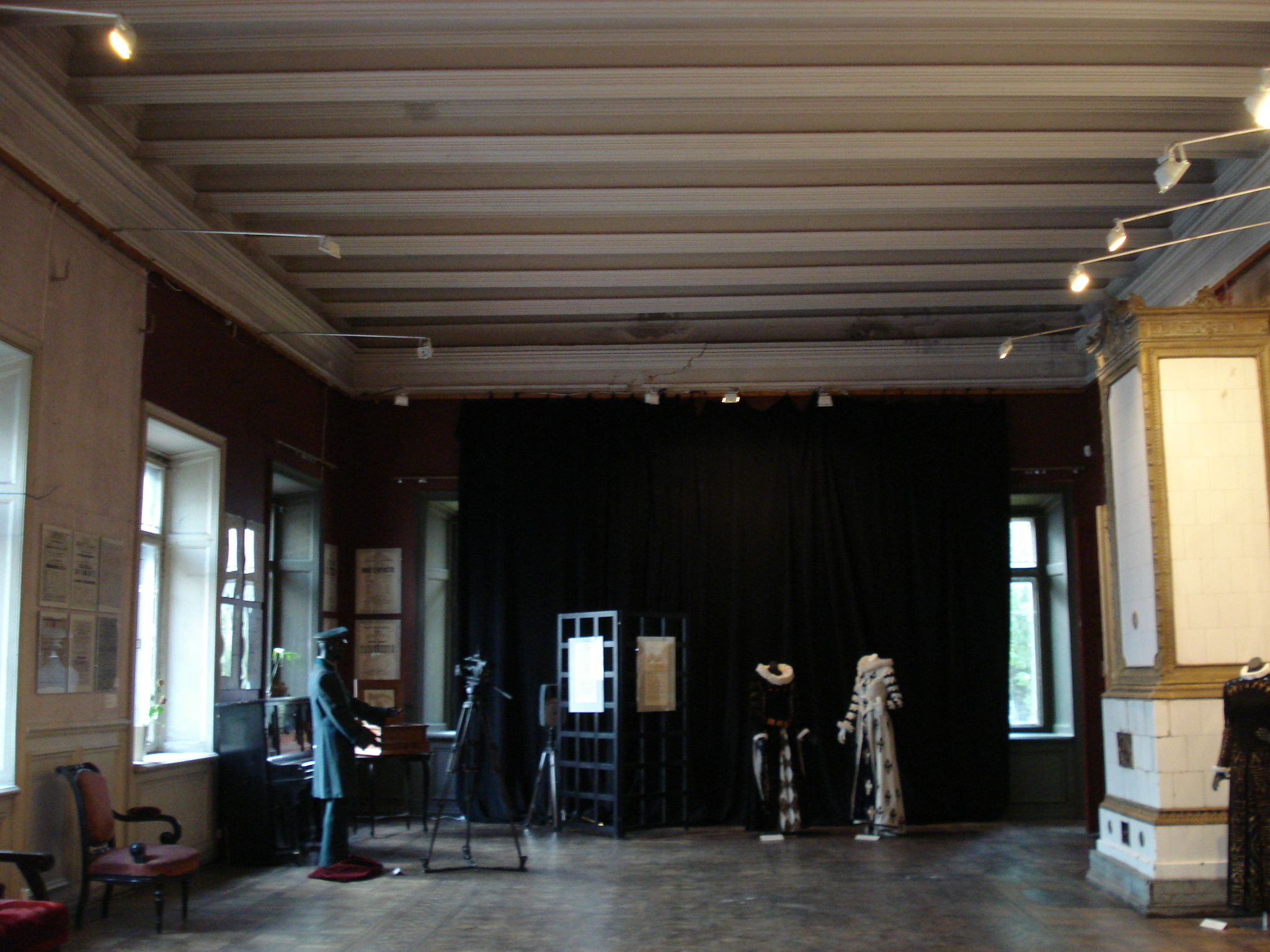 Posters exhibition at the Umiasowski Palace (Vilnius)